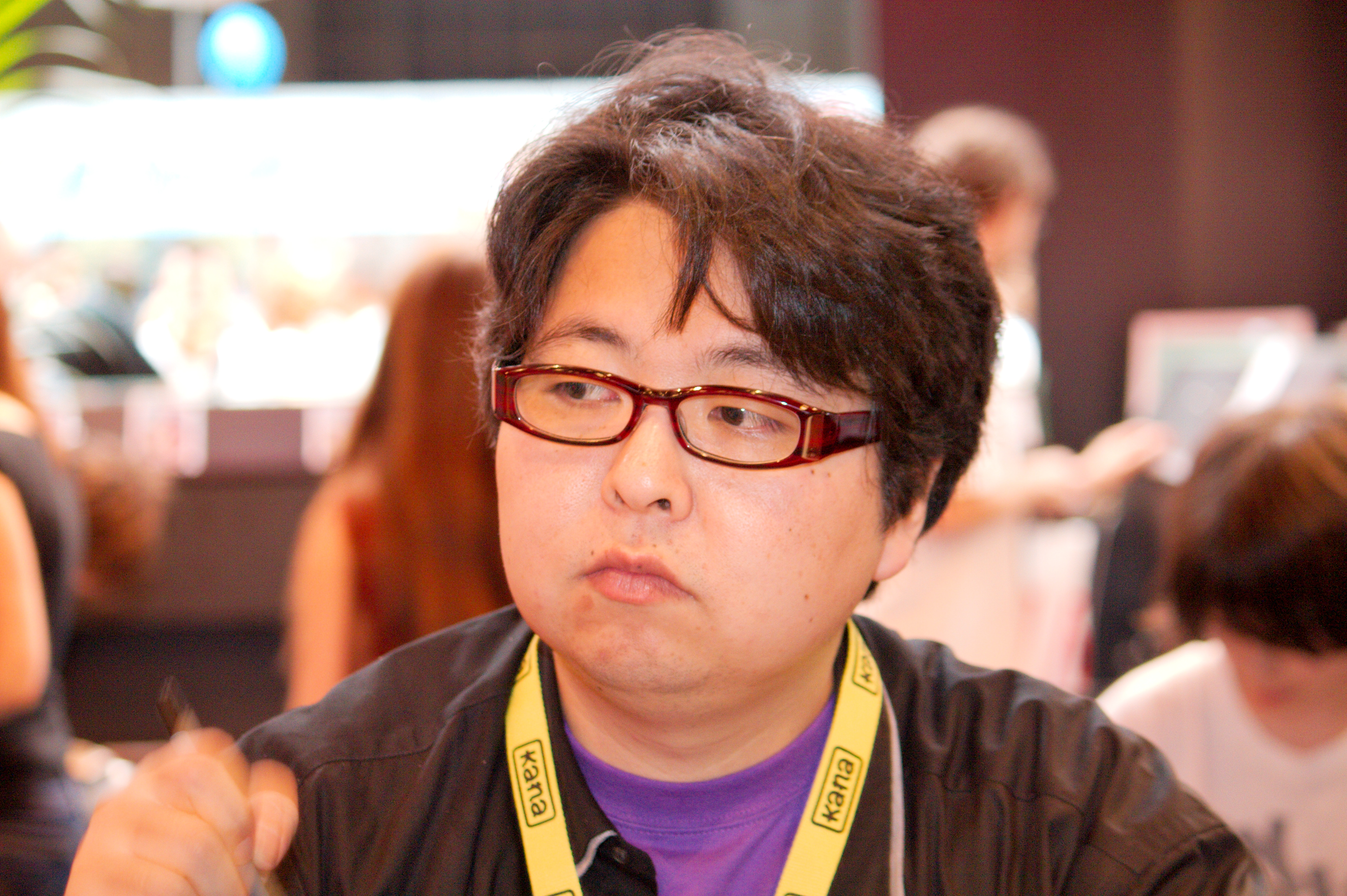 Autograph session with Kouta Hirano at Japan Expo 2008 (Paris, France).